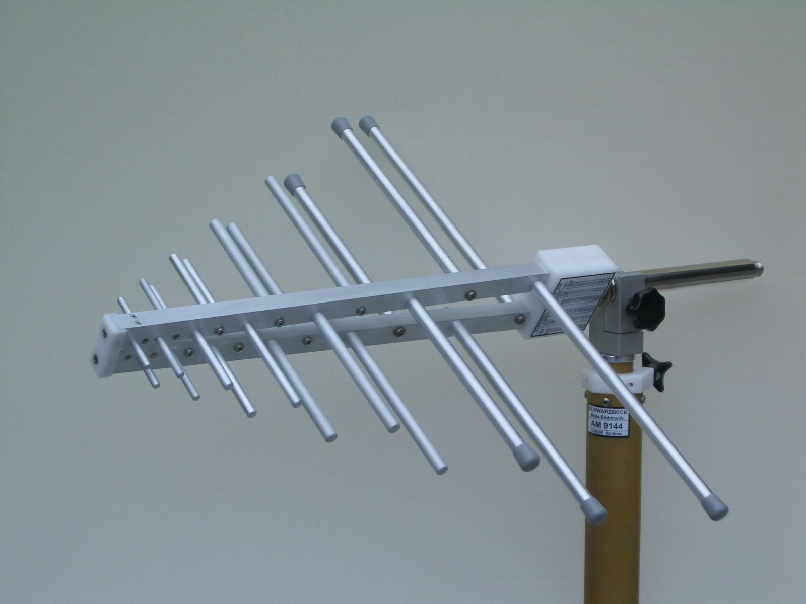 Log.-Periodic Antenna, alum. Tubing, 250 – 2400 MHz, low loss, 1 kW power